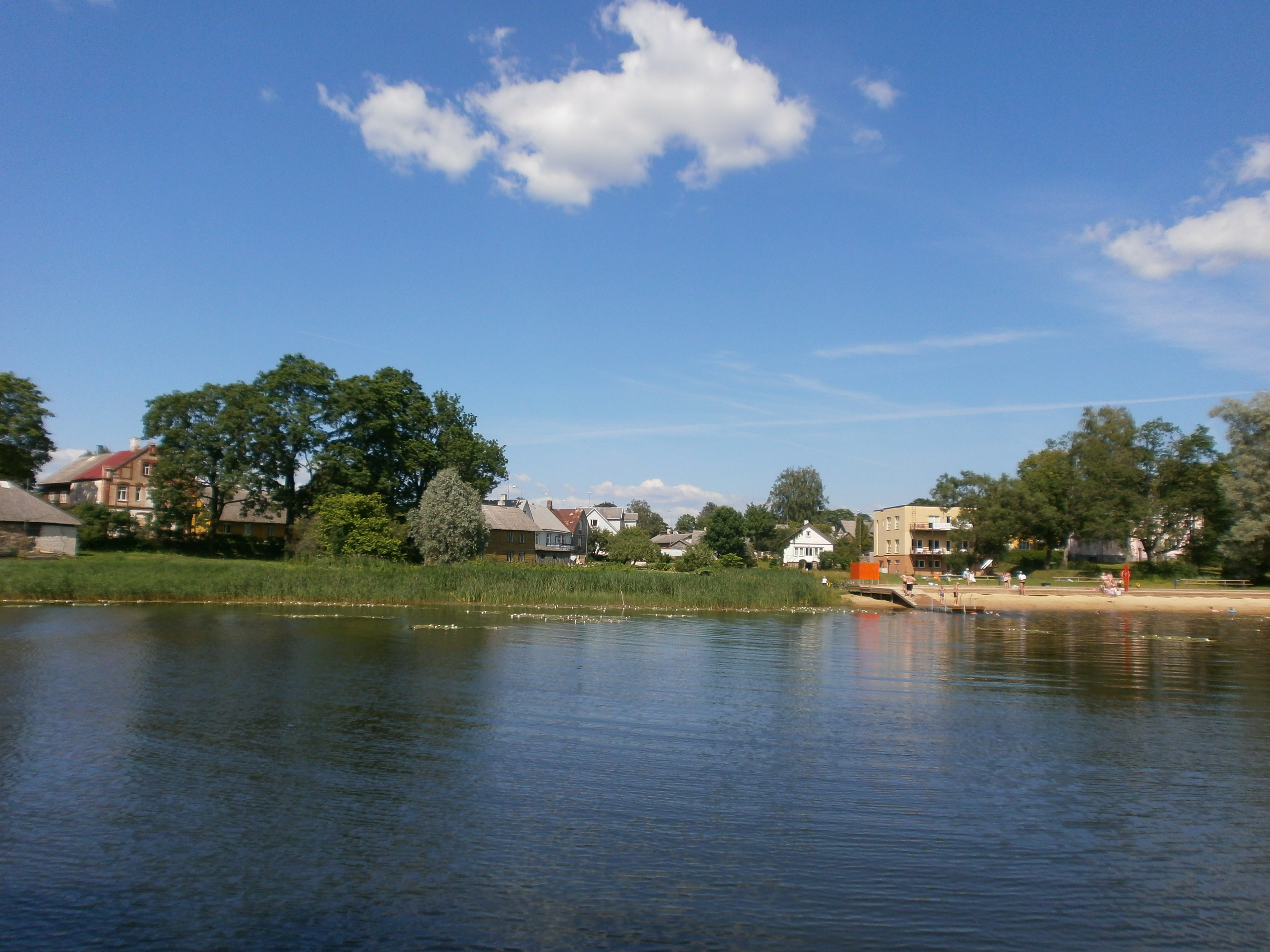 Suure-Jaani paisjärv